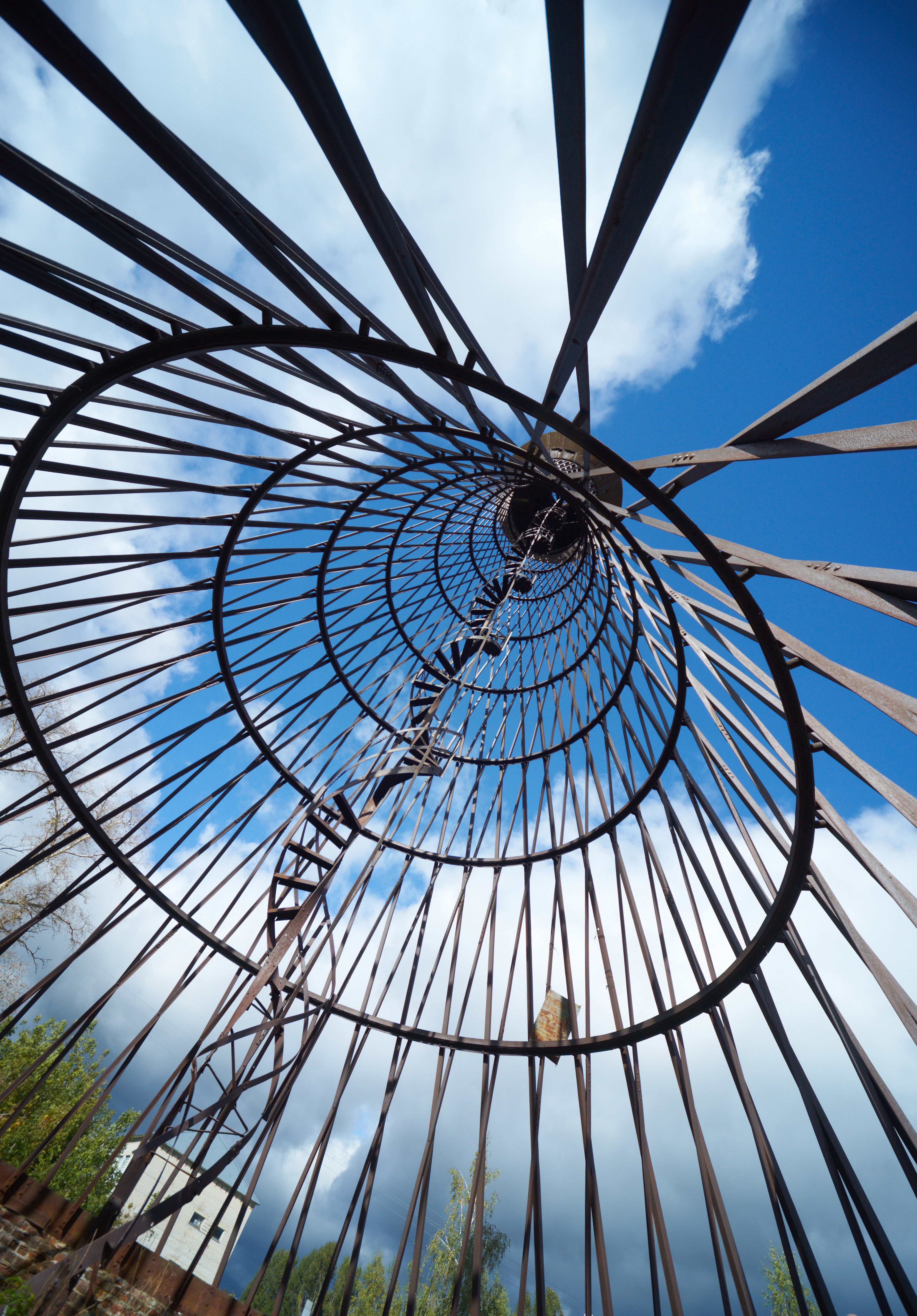 The World's First Hyperboloid Lattice Diagrid Structure in Polibino, Lipetsk Oblast. Inside view.